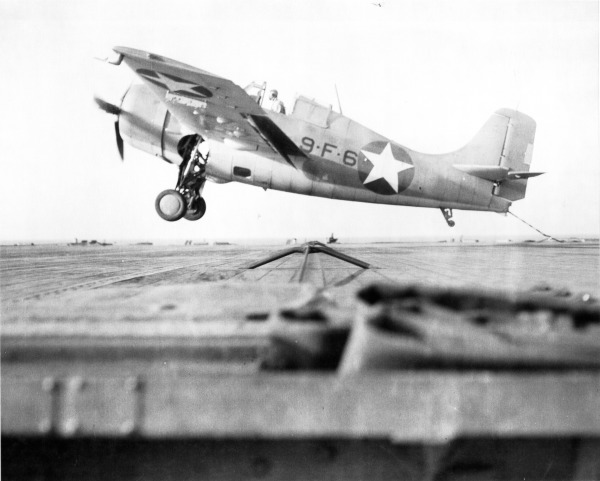 PictionID:40959091 - Catalog:Array - Title:Array - Filename:16_000286 Grumman F4F-4 VF-9 on USS Ranger 22Oct42.tif - Ray Wagner was Archivist at the San Diego Air and Space Museum for several years and is an author of several books on aviation --- ---Please Tag these images so that the information can be permanently stored with the digital file.---Repository: San Diego Air and Space Museum